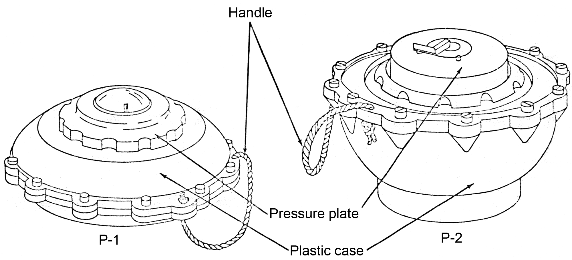 A diagram of the Pignone P-1 and Pignone P-2 anti-tank mines